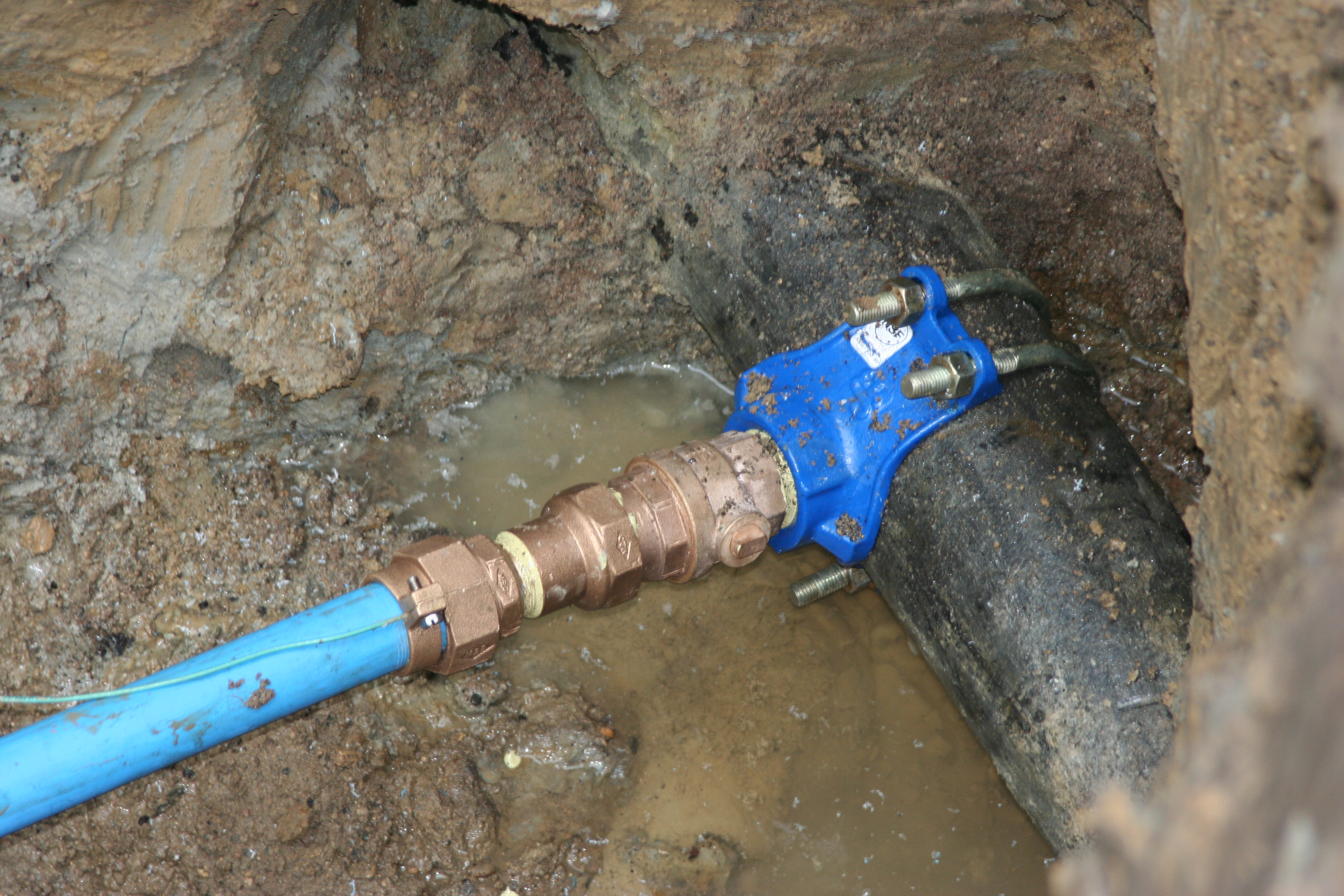 Closeup of a water main saddle tap which can be done on a live water main to provide service to a residence without disrupting other customers. This is also a point where service can be shutoff called a "corporation stop" and is buried under the road without external access (as opposed to a curb stop which is further up the line).